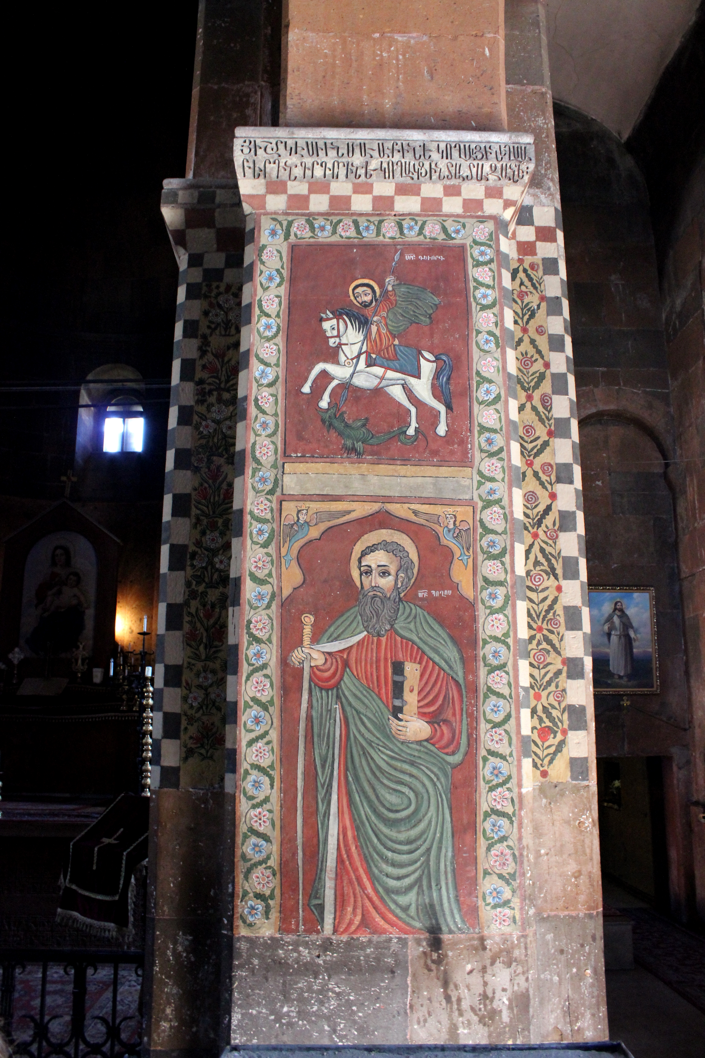 Interior mural depicting Saints Paul (bottom) and George (top) at S. Hakob Church in Kanaker, Armenia